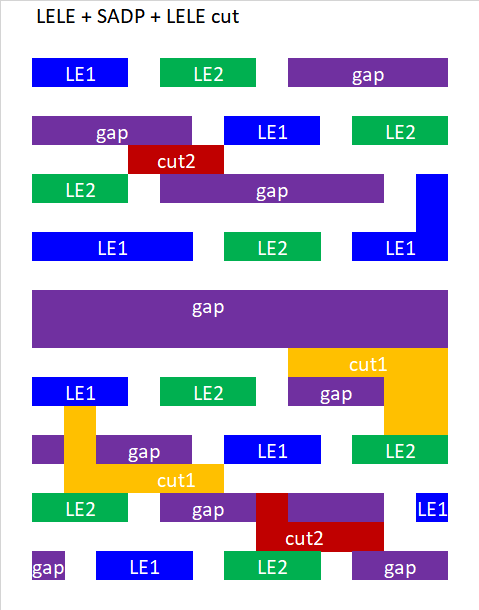 A 2D pattern such as a brick pattern can be formed by a LELE + SADP + cut process. Such a process has been proposed by IMEC for 7nm fins.[1] The white space directly surrounding a LE1 or LE2 feature is occupied by a spacer, while the purple gap is left over after spacer etchback, allowing additional features to be defined. The cuts themselves may need to be split into two parts, as shown here, when the pitch is further reduced.